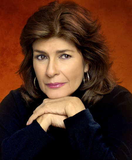 pintura de Raquel Olmedo en el año 2009